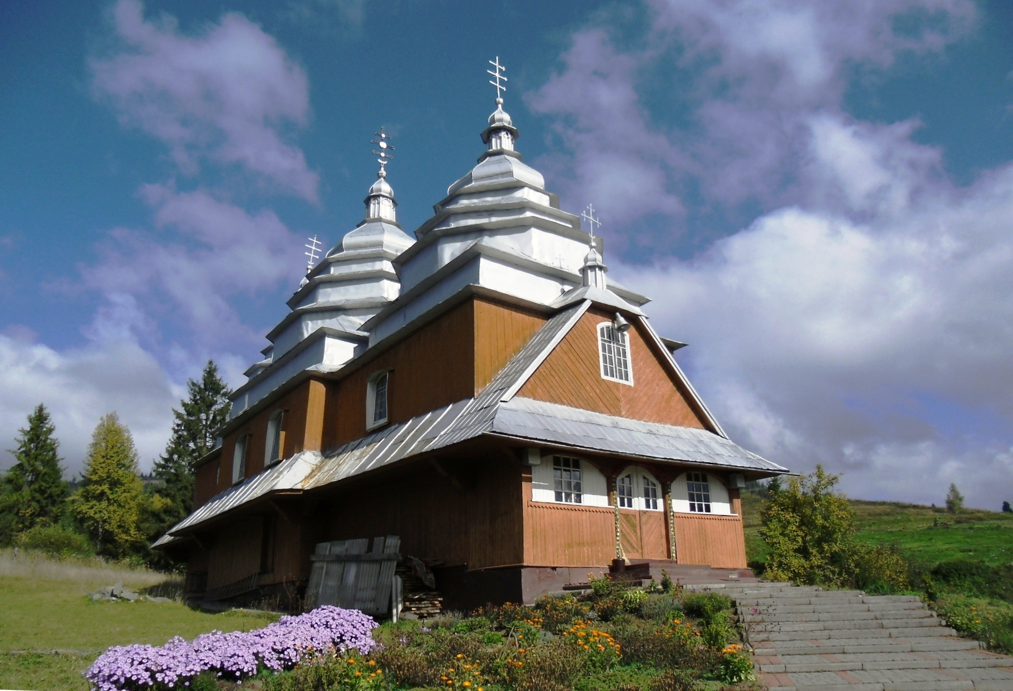 Church of the Nativity Blessed Virgin Mary (wood) 1882 (the previous name - Church of St. Arch. Michael). Oriava (Skole Raion). (year of reconstruction - 1926)